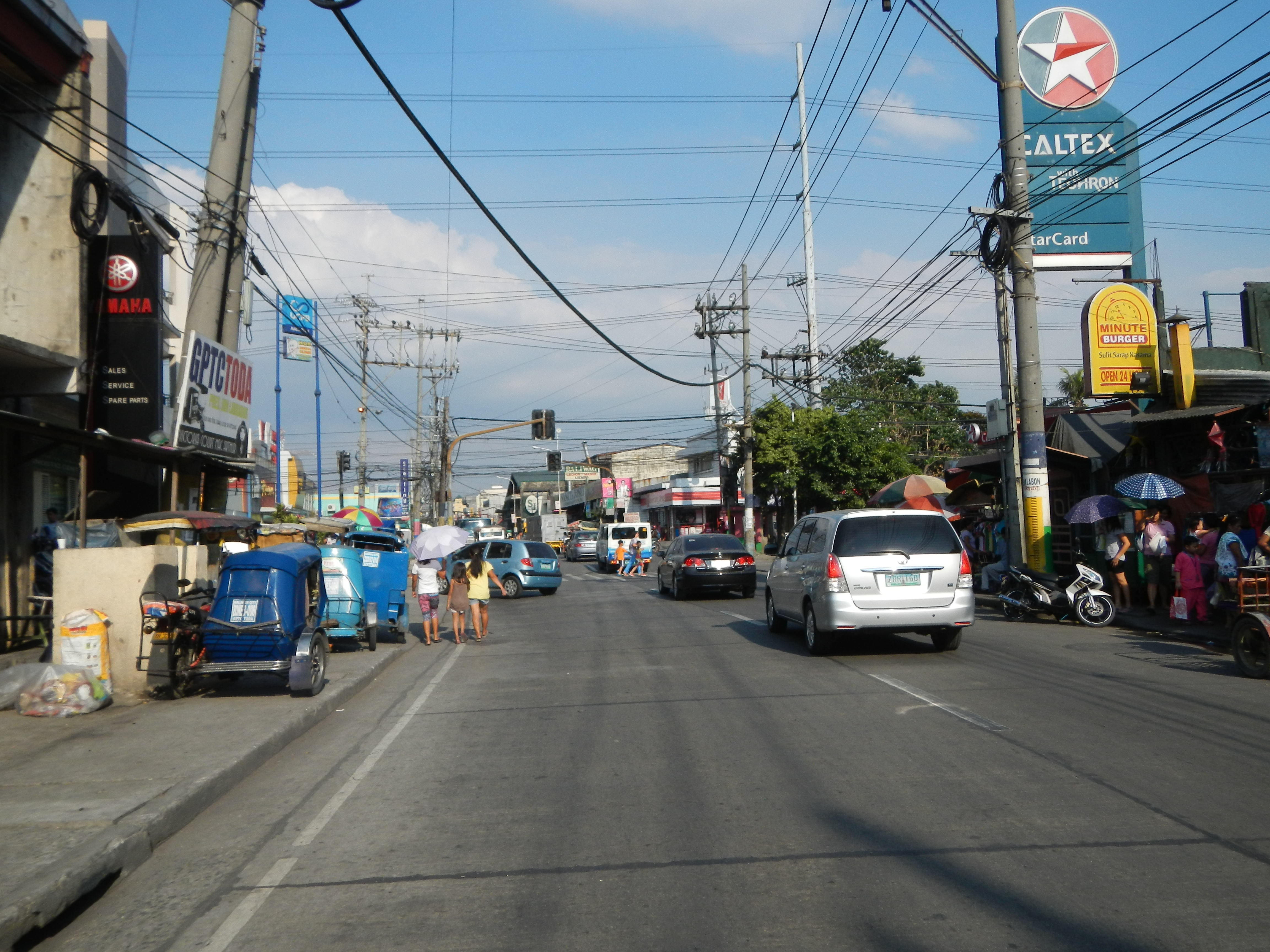 Governor Pascual Avenue (Malabon City) Coordinates: 14°40'13"N 120°57'30"E along Barangays Tinajeros, Catmon to Nyugan, Malabon City.